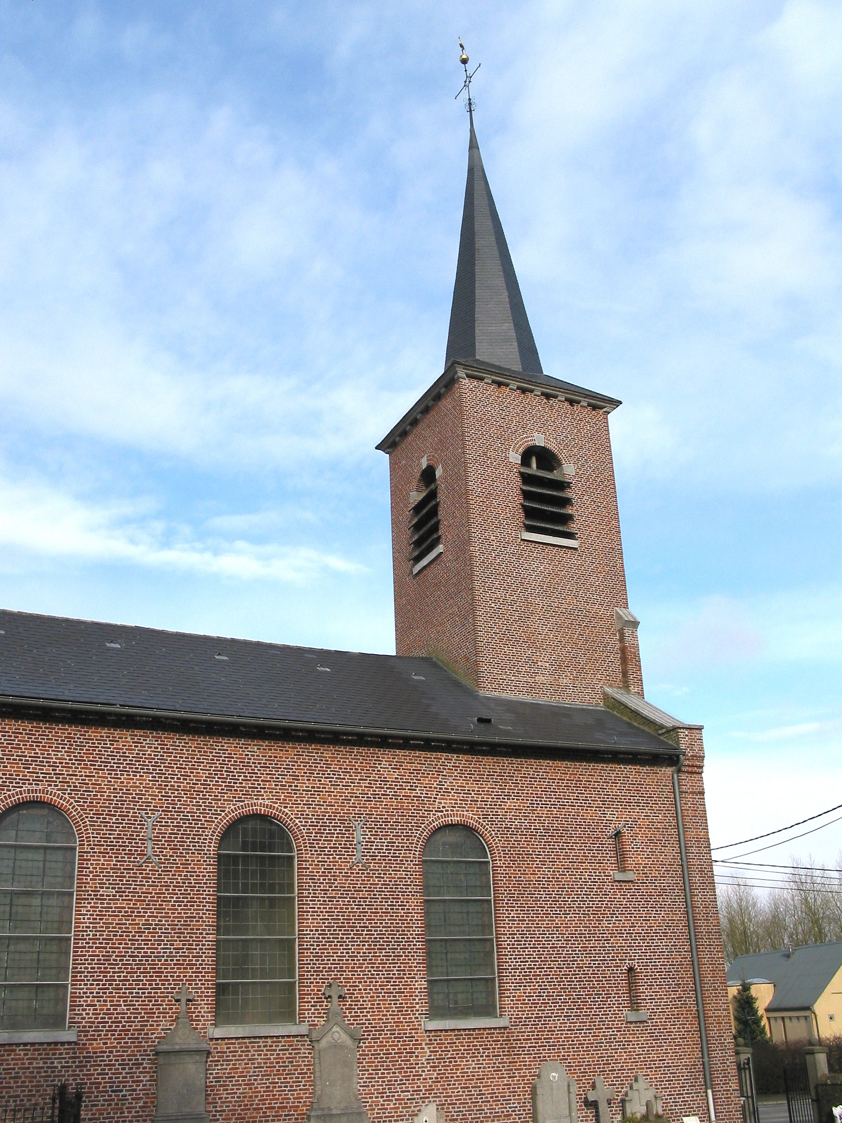 Villers-Notre-Dame (Belgium), the Our Lady of the visitation church (1862).